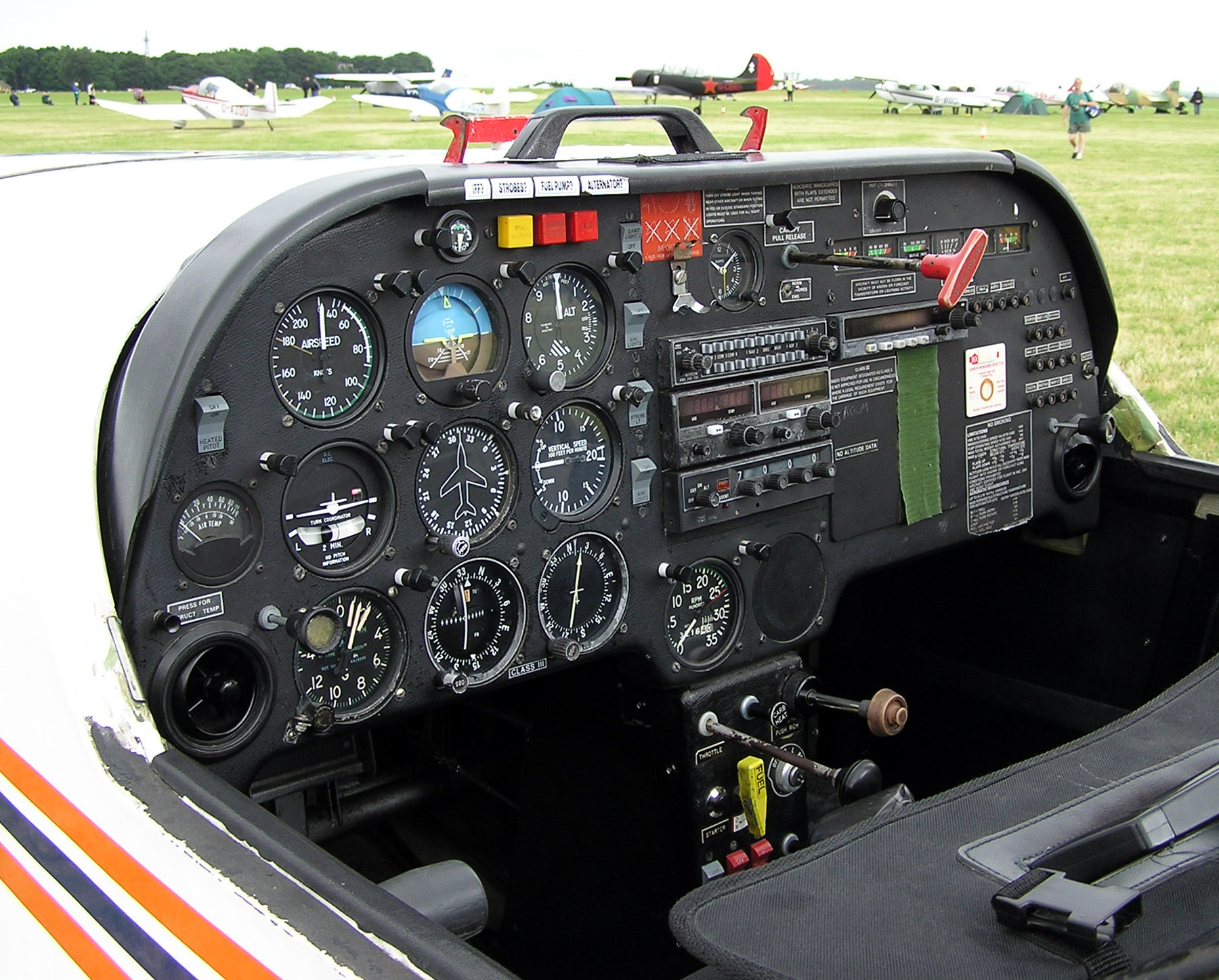 The cockpit panel of a Slingsby T67C light aircraft (UK registration G-BOCM) at Kemble Airfield, Gloucestershire, England. The basic T is visible: in a row there are Airspeed, Attitude (coloured blue) and Altitude. Below the blue Atttitude is the vertical “bar” of the T (the Heading). Photographed by Adrian Pingstone in July 2005 and placed in the public domain.